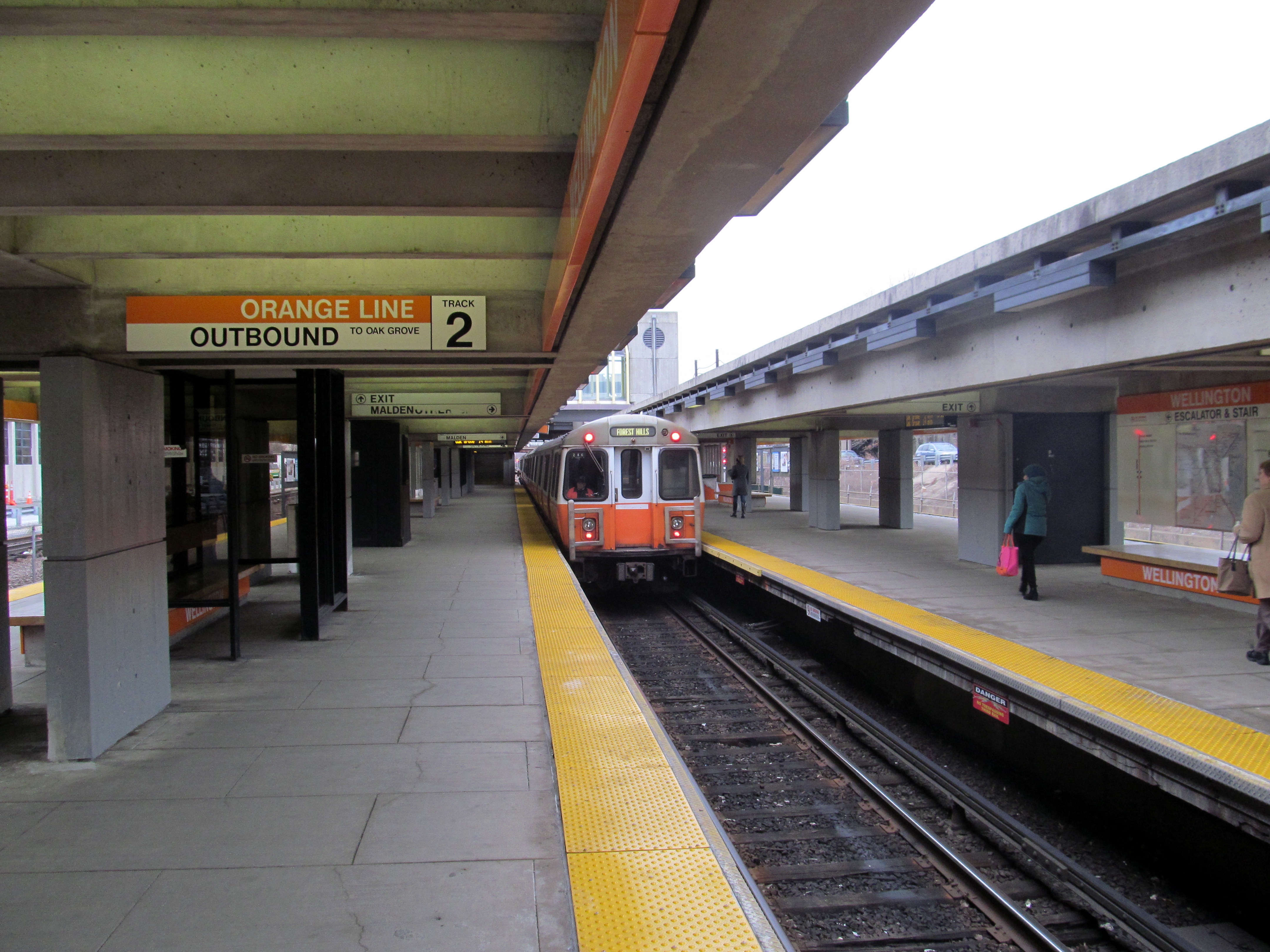 An outbound train leaves Wellington station